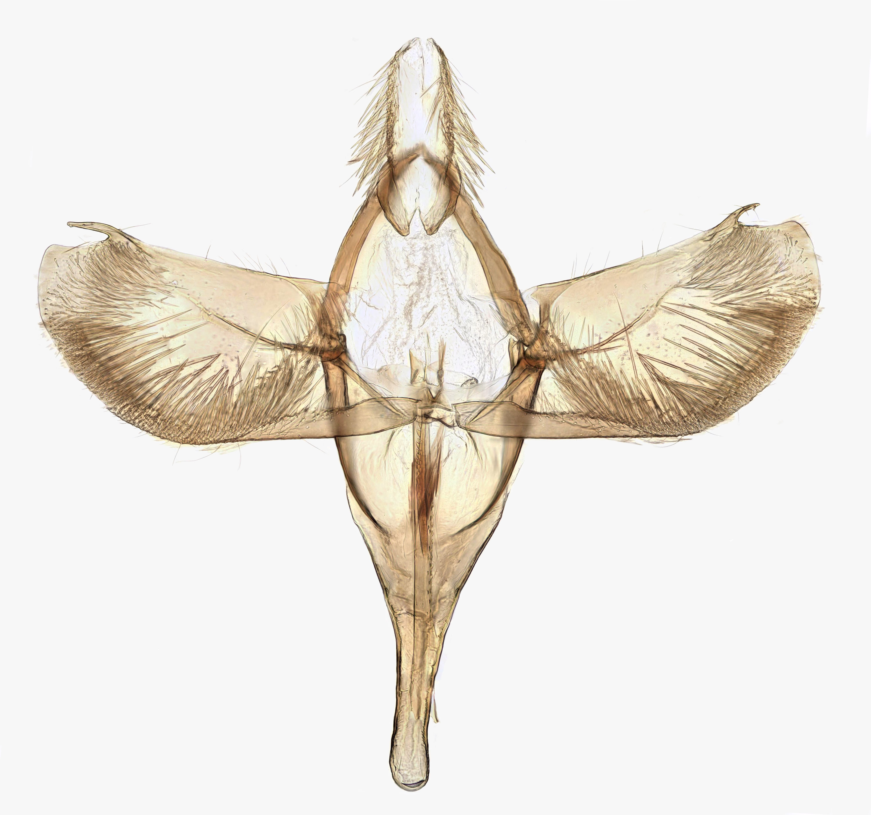 Prochoreutis myllerana, Dovey Junction, North Wales, Aug 2016